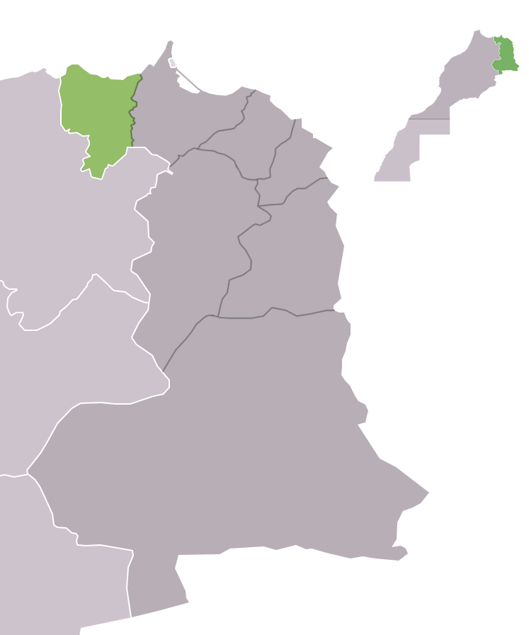 Driouch province, Oriental Region, Morocco